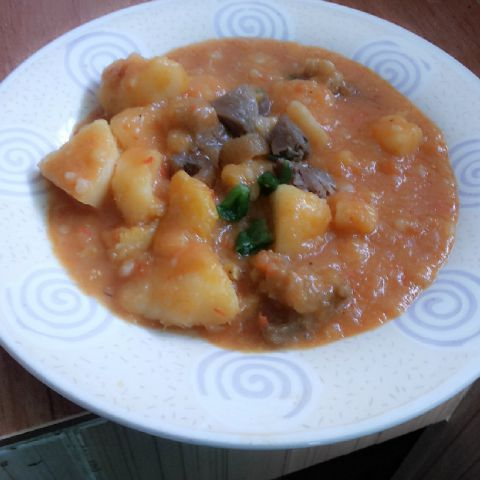 Asaro This is an image of food from Nigeria